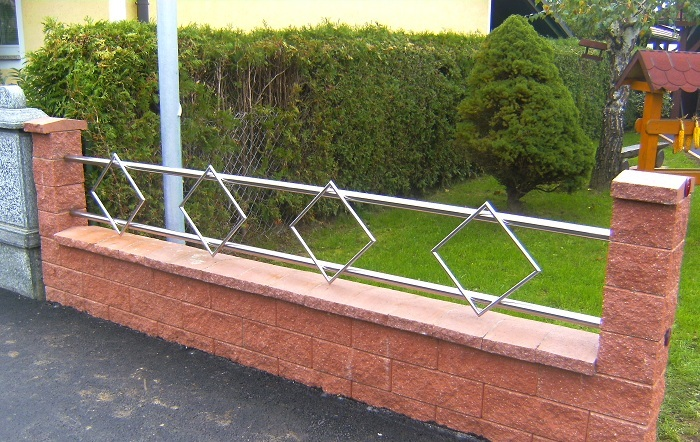 Fence of Sommer Garden.